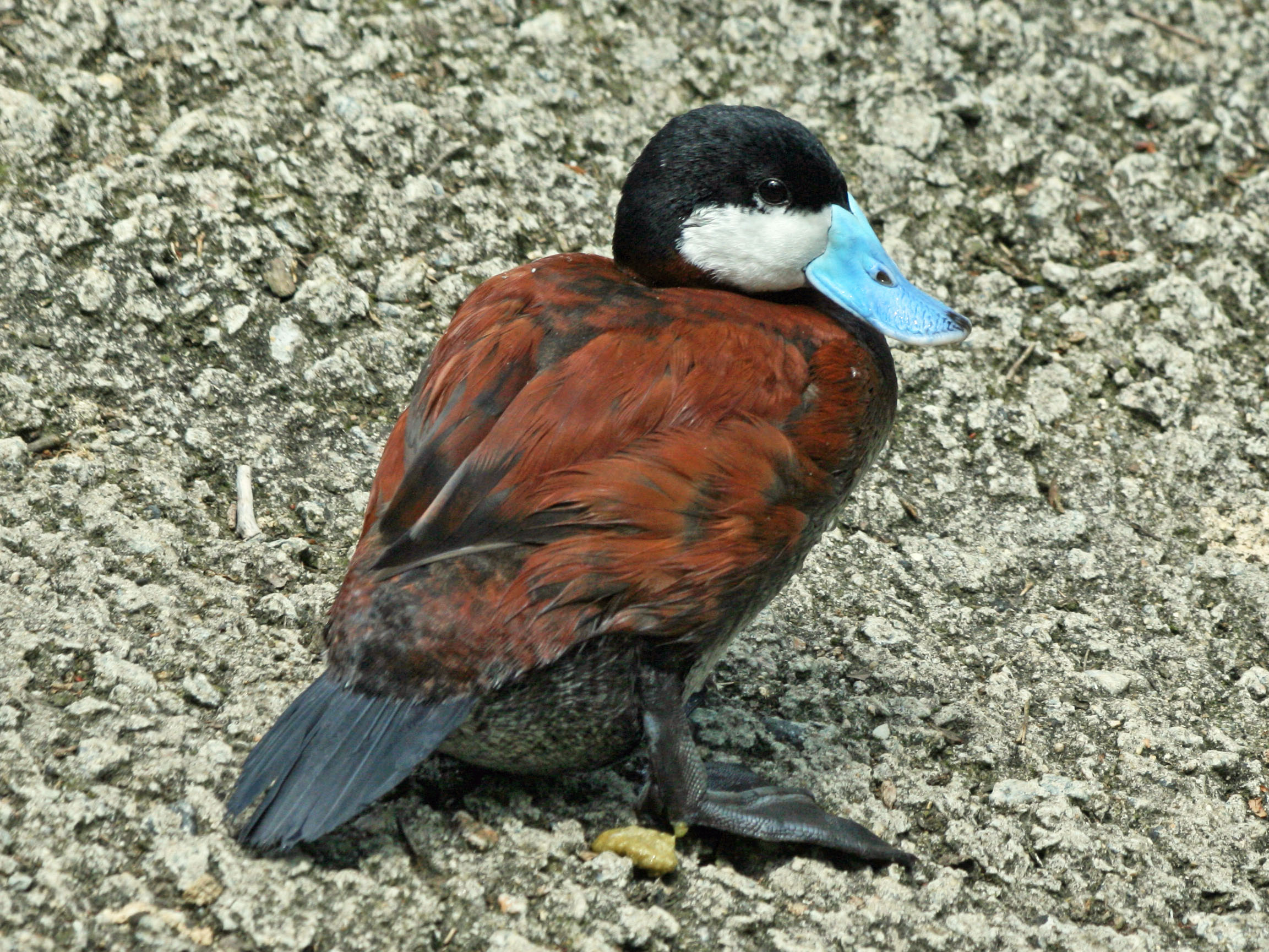 Ruddy Duck (Oxyura jamaicensis) - Sylvan Heights Waterfowl Park, North Carolina